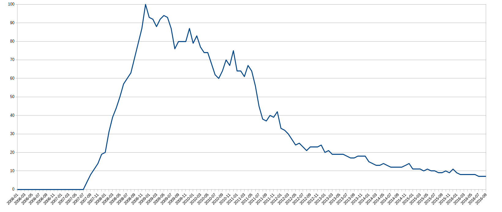 Trends of search for the word "Deezer" on Google Trends from 2004 to september 2016